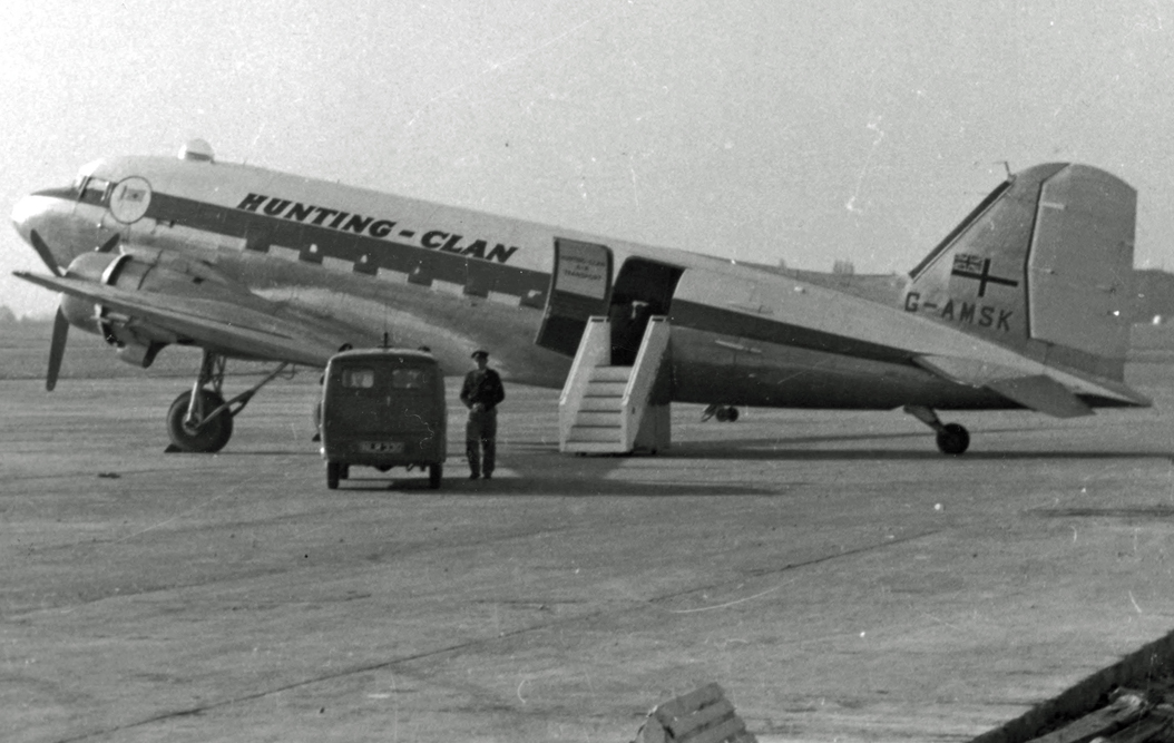 Douglas C-47B Dakota 4 of Hunting-Clan Air Transport at Manchester (Ringway) Airport in 1954